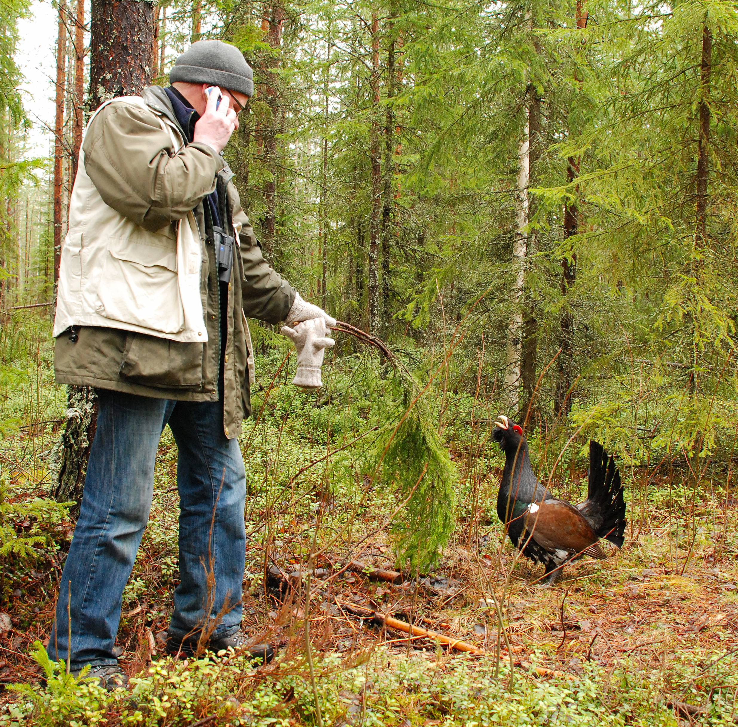 Capercaillie attacking a hiker in a Finnish taiga forest.